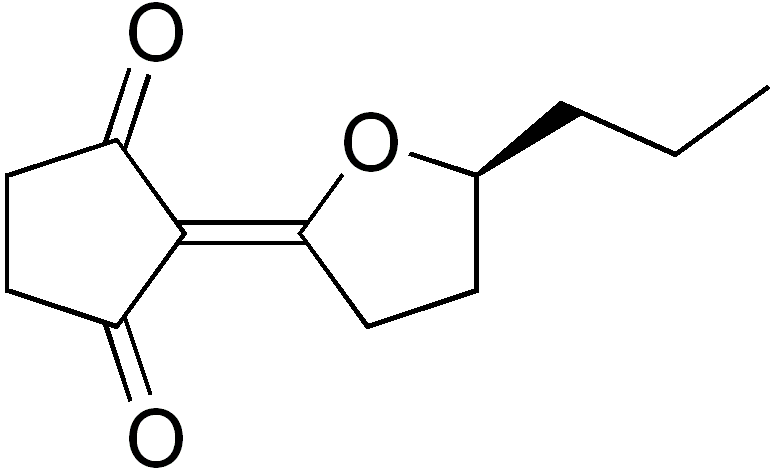 chemical structure of Oudenone